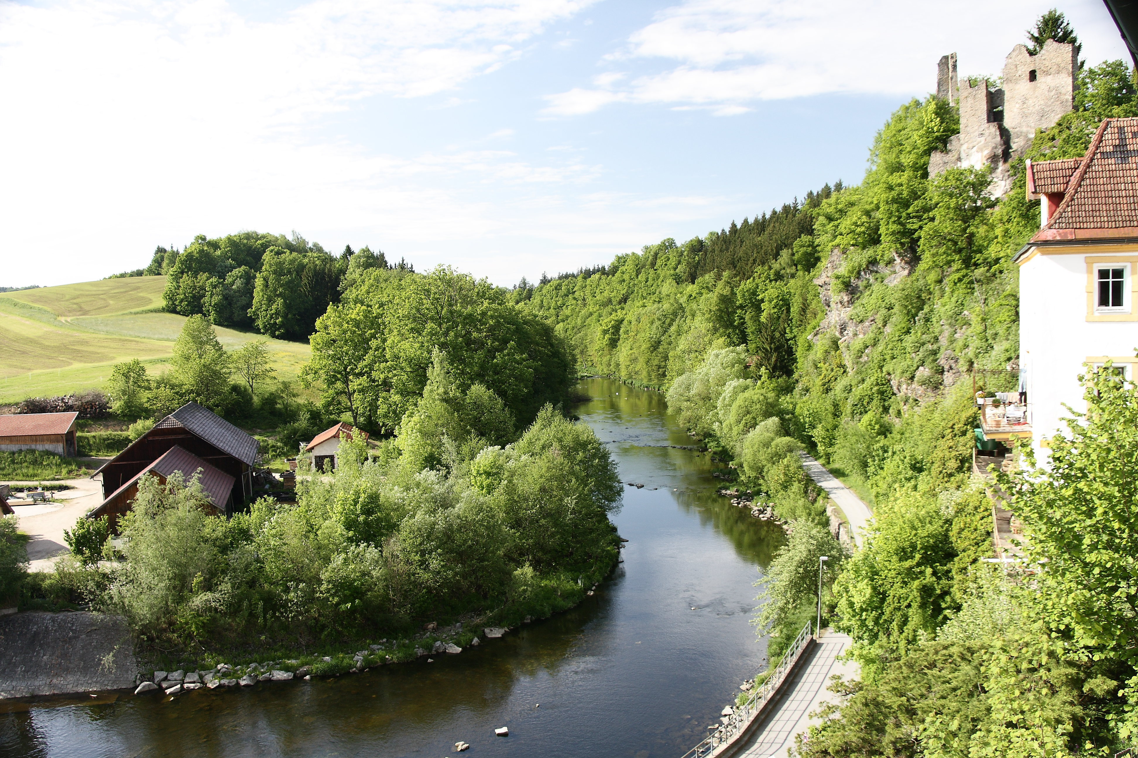 The river Ilz, view from Hals heading NNW.